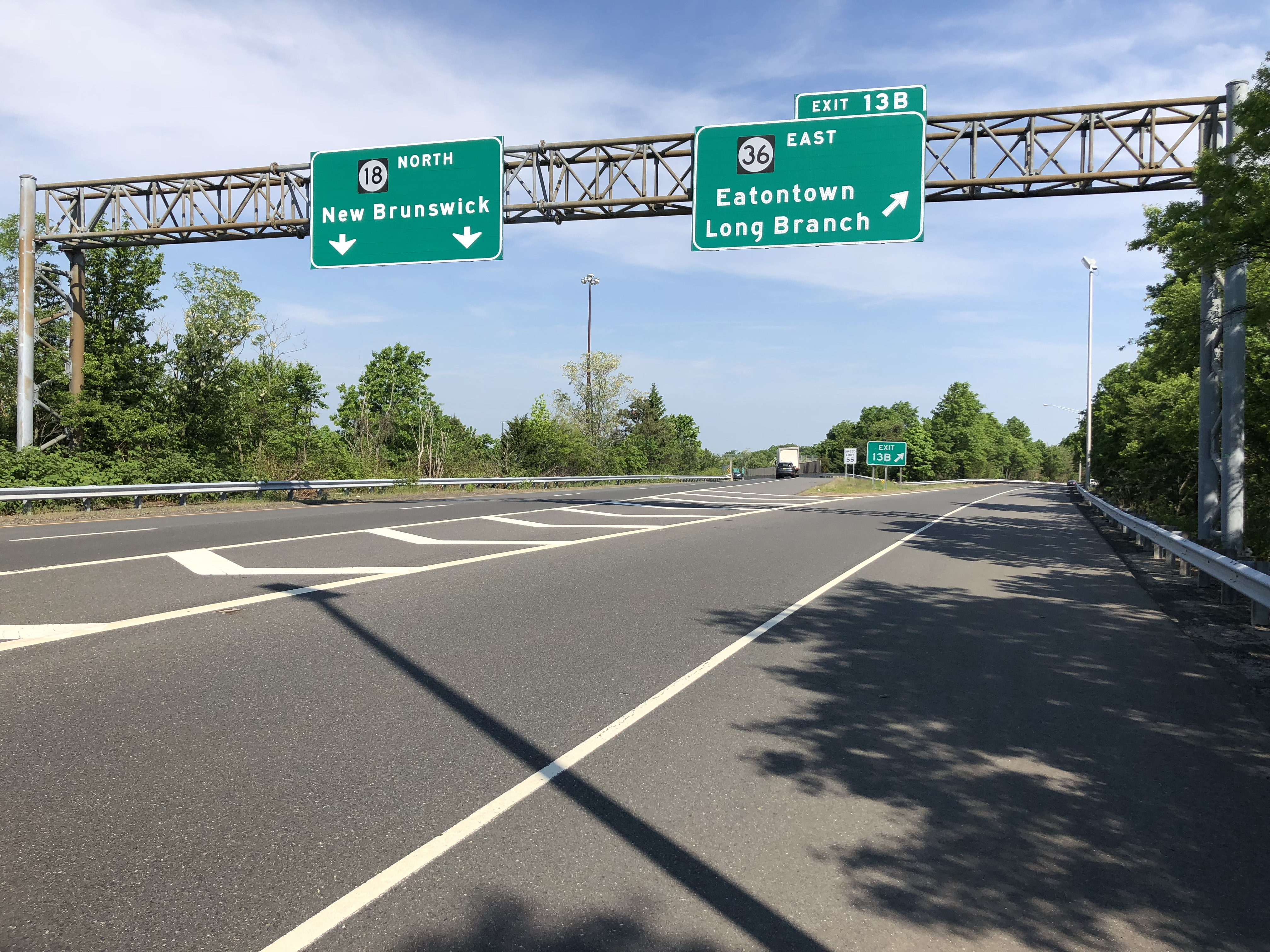 View north along New Jersey State Route 18 at Exit 13B (New Jersey State Route 36 EAST, Eatontown, Long Brach) in Eatontown, Monmouth County, New Jersey